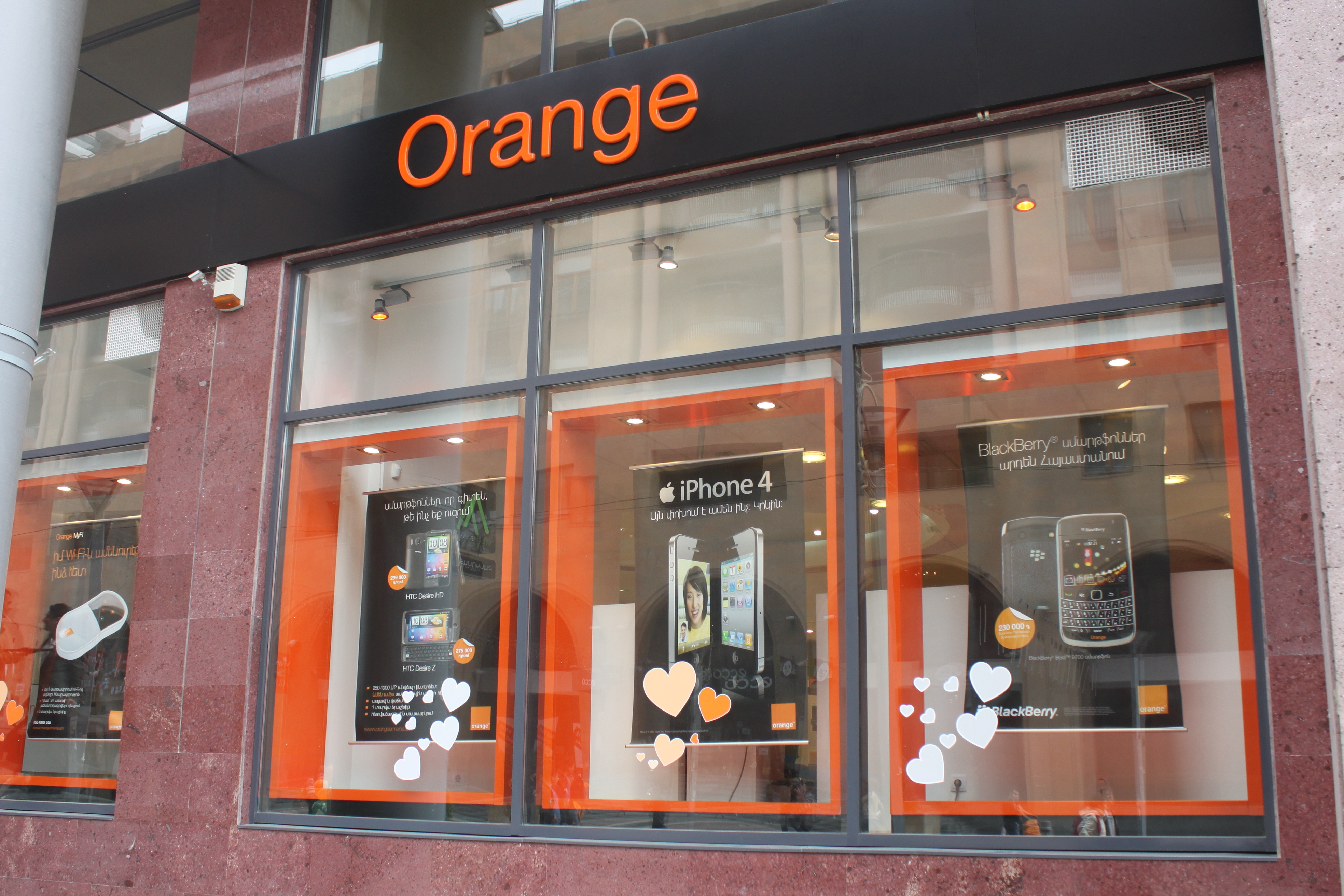 A window display at Orange's flagship Northern Avenue branch advertises iPhone 4, Blackberry, and HTC phones, as well as a 3G Internet WiFi Router. In November 2009, Orange became the third entrant into Armenia's mobile telecommunications market.